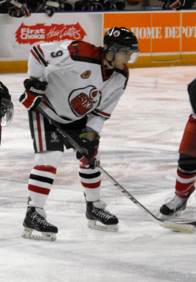 This photo was taken by Devan Mighton during the 2013-14 GOJHL season.